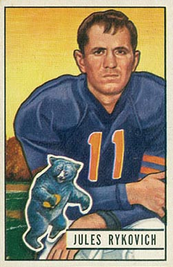 American football player Jules Rykovich on a 1951 Bowman card.